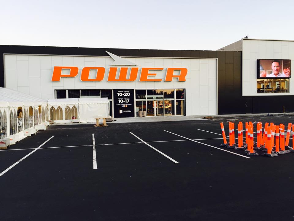 Power - the first new Power warehouse in Glostrup, Denmark